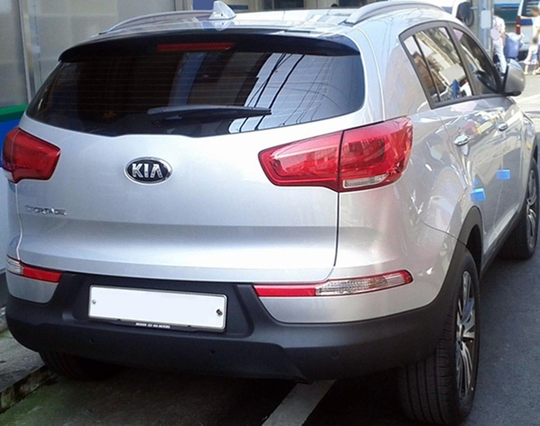 Kia The New Sportage R